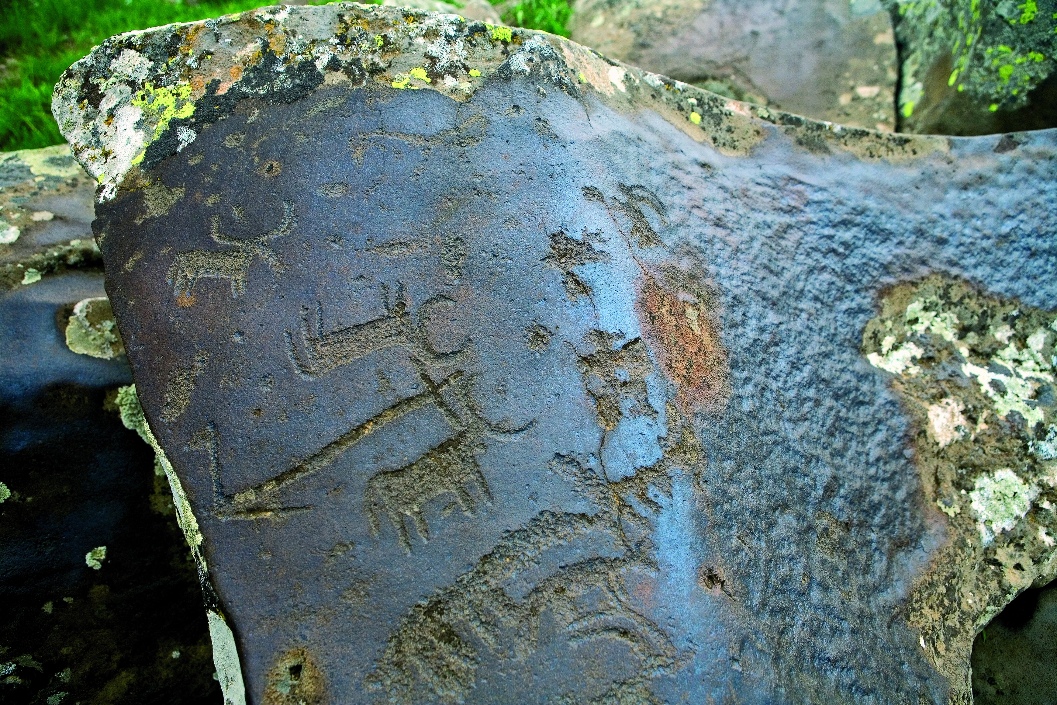 The Petroglyph of Bulls on the Slope of Ukhtasar Volcano